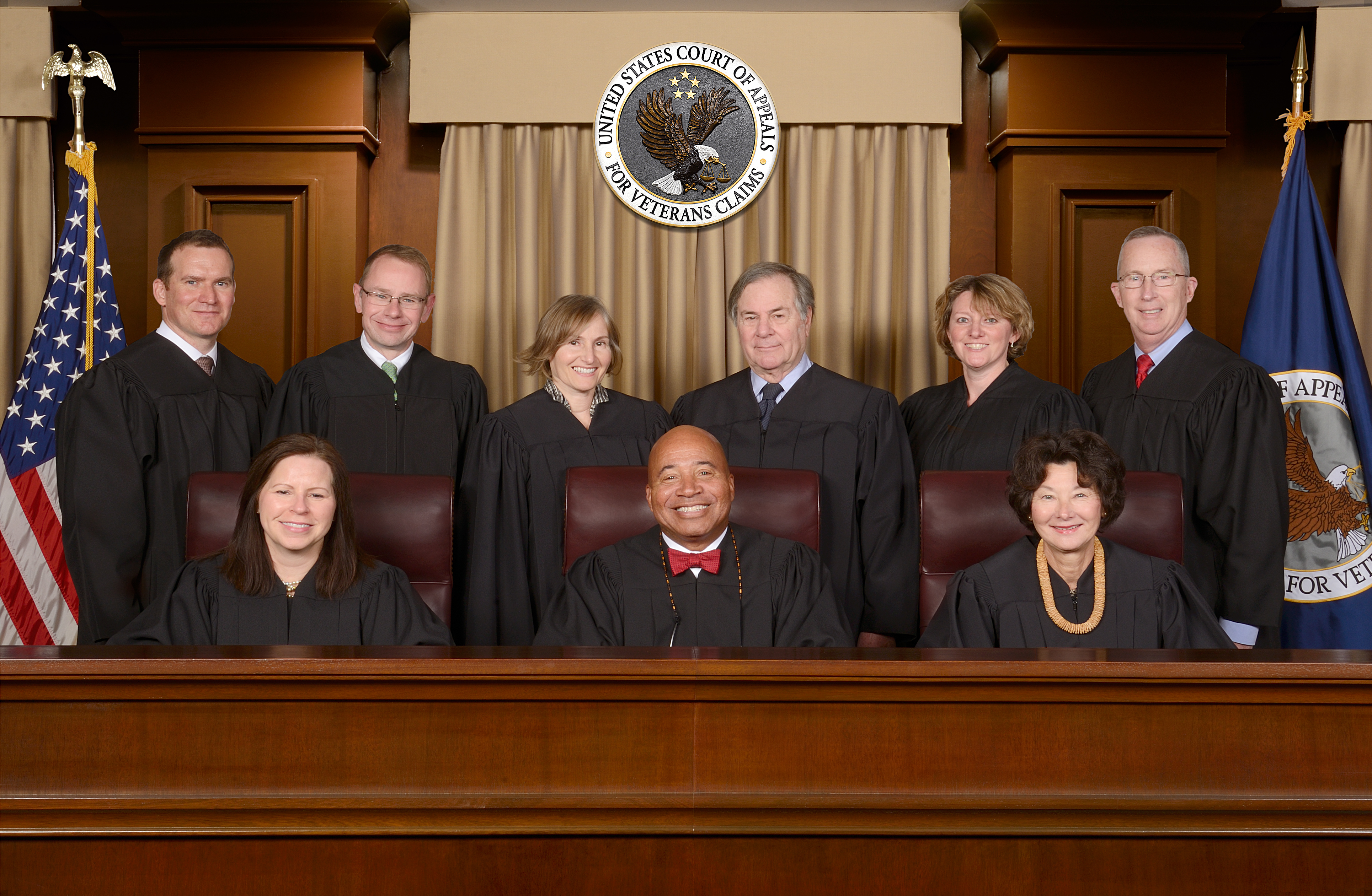 U.S. Court of Appeals for Veterans Claims in 2018